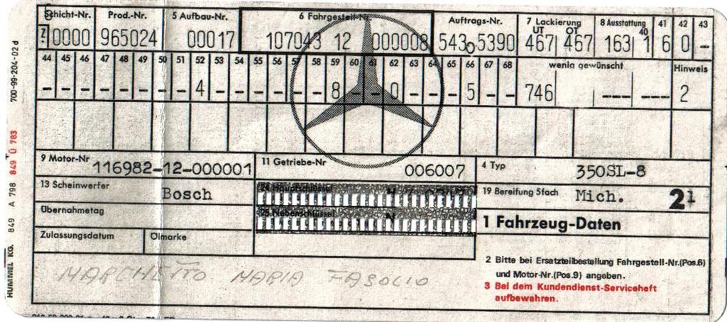 The datacard for one of the oldest, still driving Mercedes-Benz R107. The car was sold in Italy, now it is registered in Germany.